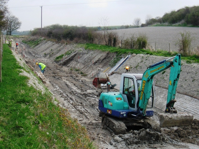 Wendover Arm: Work in progress relining the dry canal bed